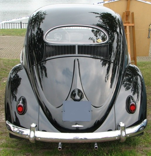 Picture of a VW Beetle with oval rearwindow.